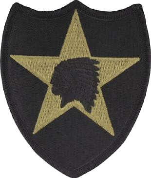 2nd Infantry Division Shoulder Sleeve Insignia